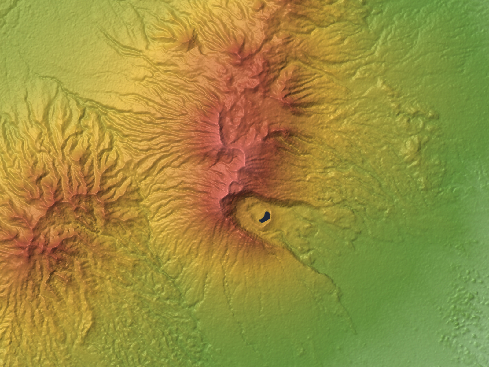 Galunggung is a volcano in West Java, Indonesia.